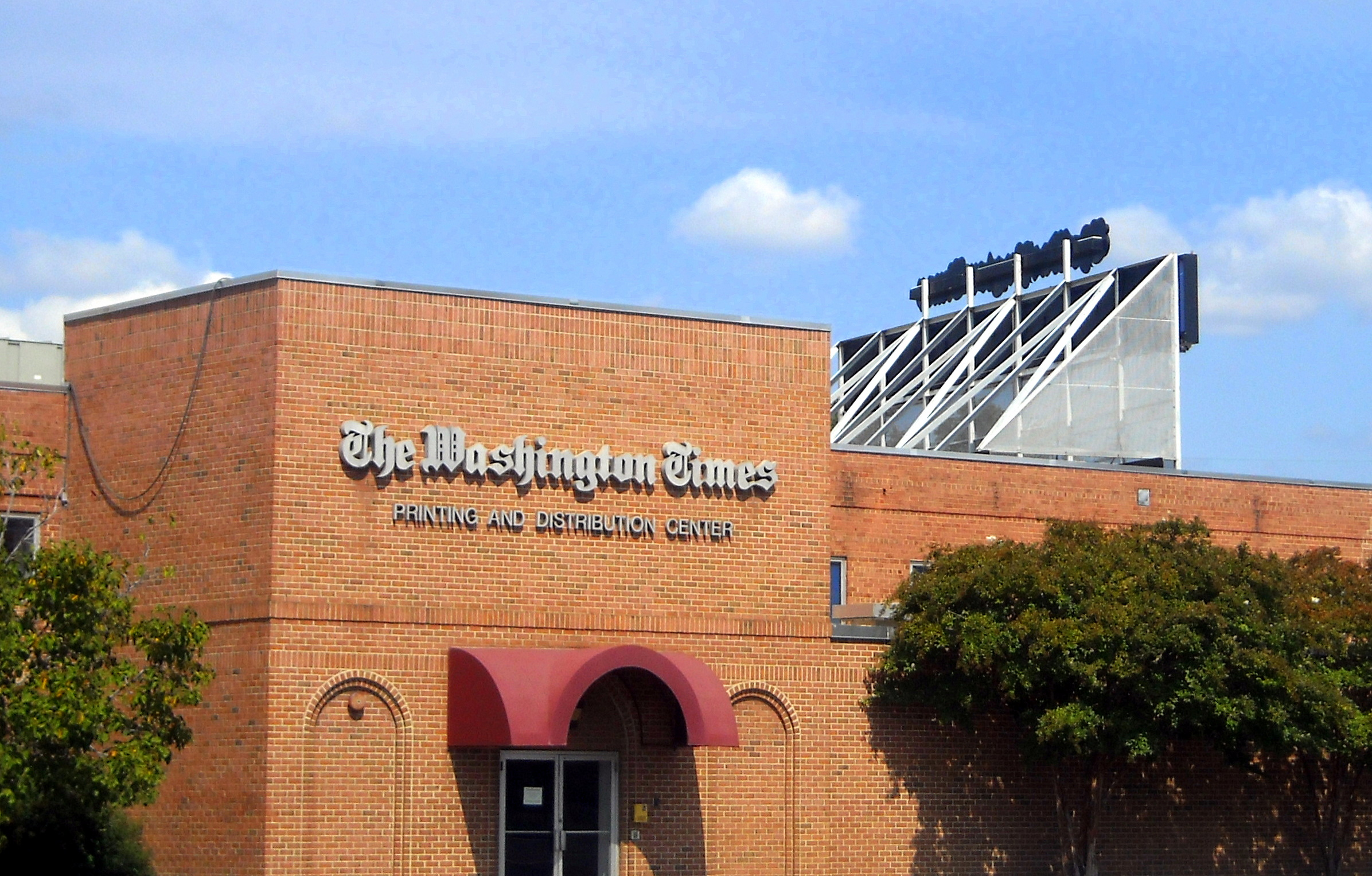 The Washington Times Printing & Distribution Center on New York Avenue, NE in Washington, D.C.